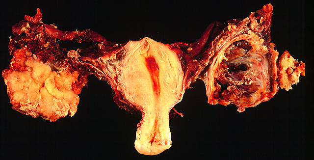 In this TAH-BSO specimen, the right ovary (on the left of the image) has been replaced by a solid serous carcinoma. The contralateral ovarian tumor is grossly cystic and could be termed a "cystadenocarcinoma." The patient had omental metastases and positive peritoneal fluid cytology. This cancer, which was discovered at exploratory laparotomy, apparently developed very rapidly; the patient had a normal pelvic ultrasound exam only 2 months before. Photograph by Ed Uthman, MD. Public domain. Posted 2 Jan 99 (updated 6 Feb 99)